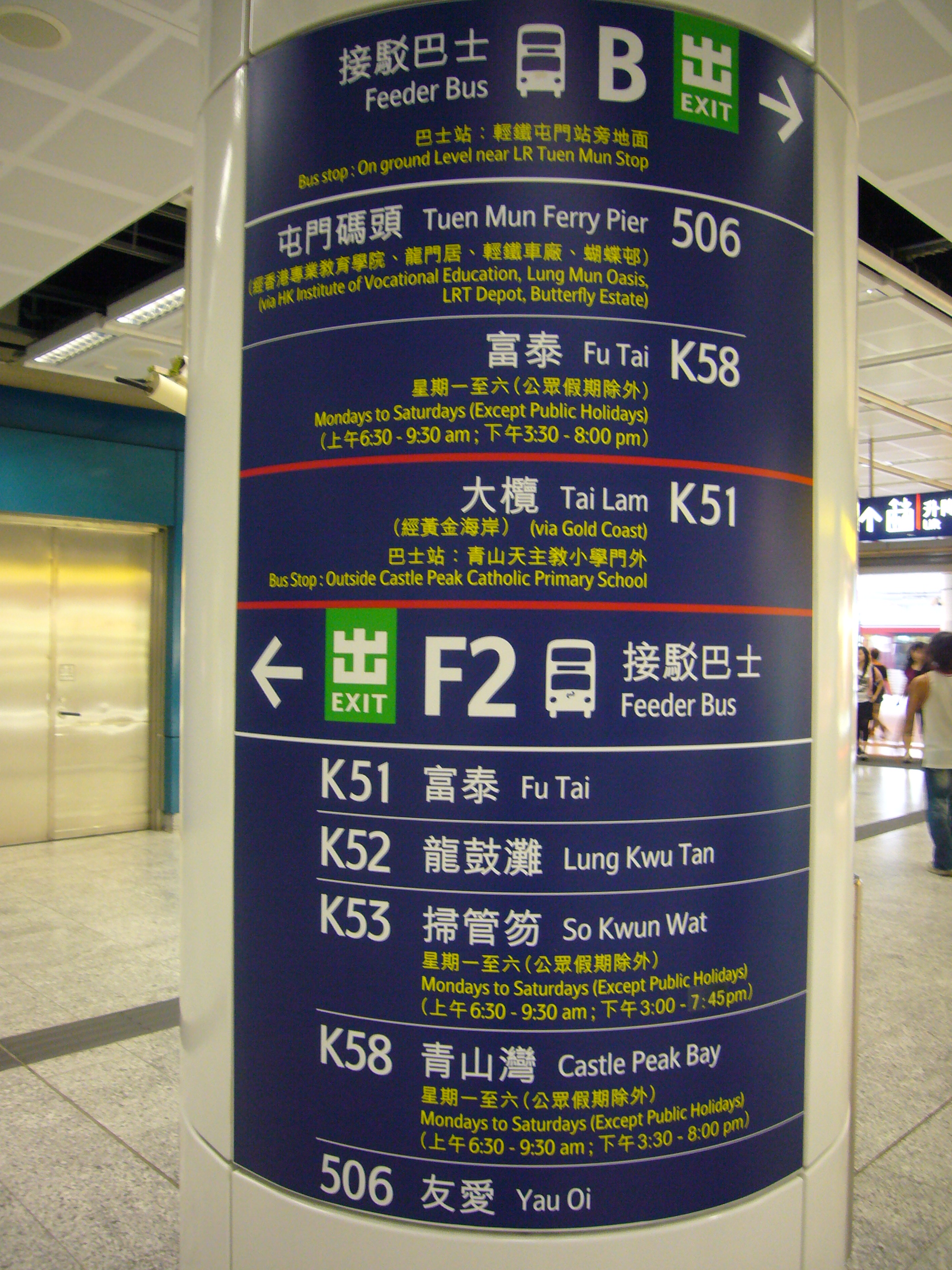 Exits of Tuen Mun Hong station mtr